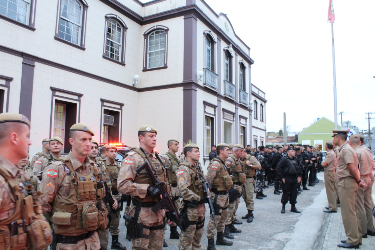 Foto oficial PMSC